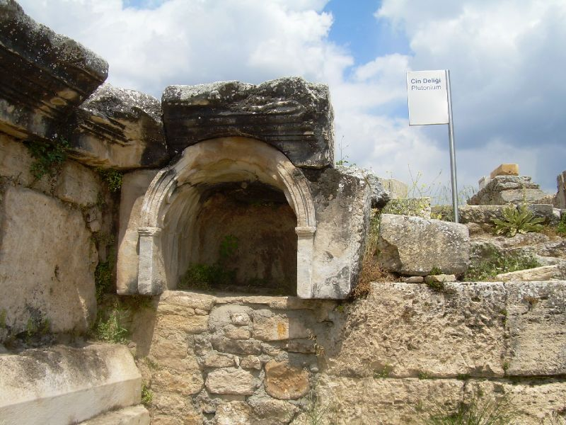 Hierapolis